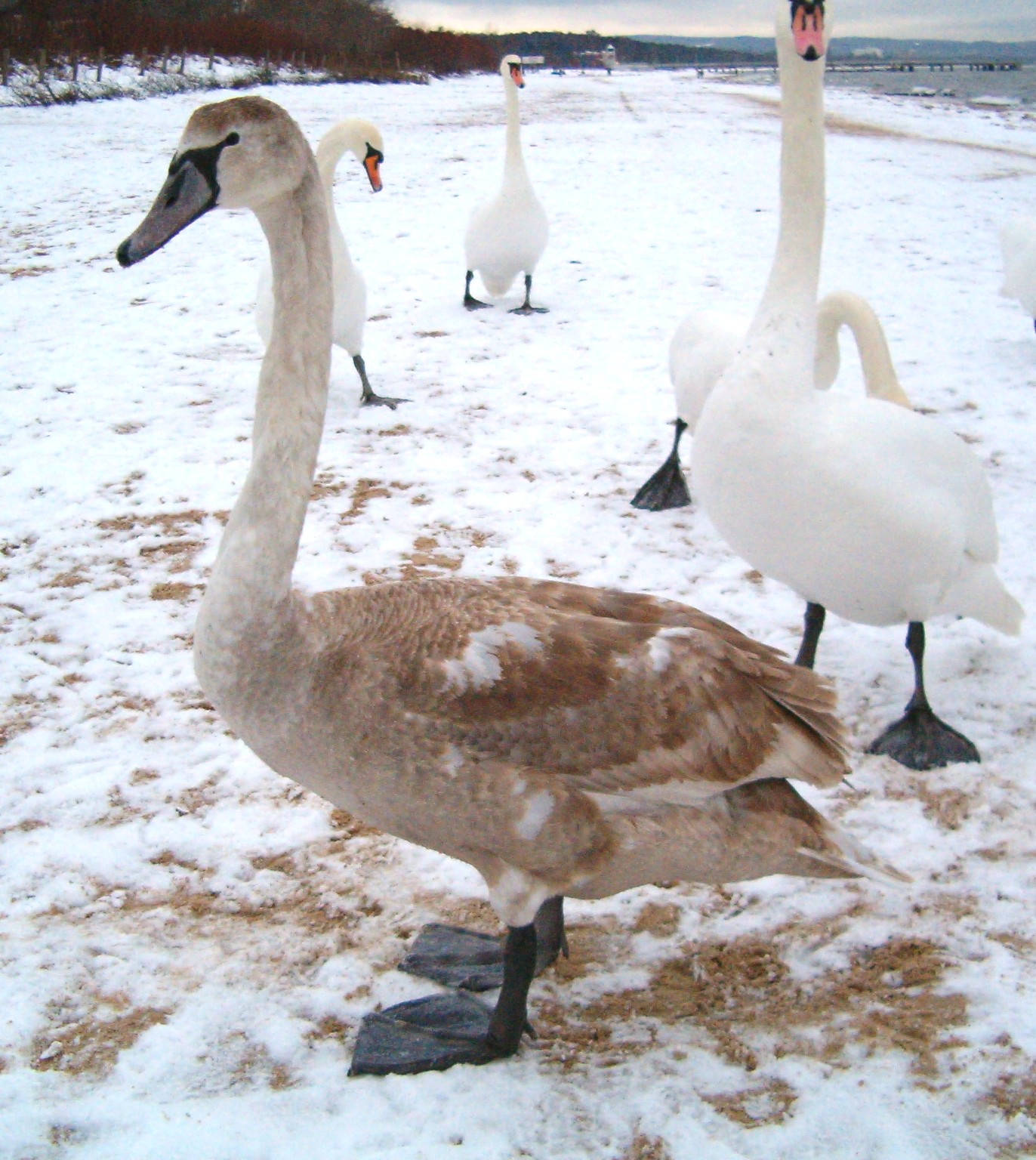 Swan